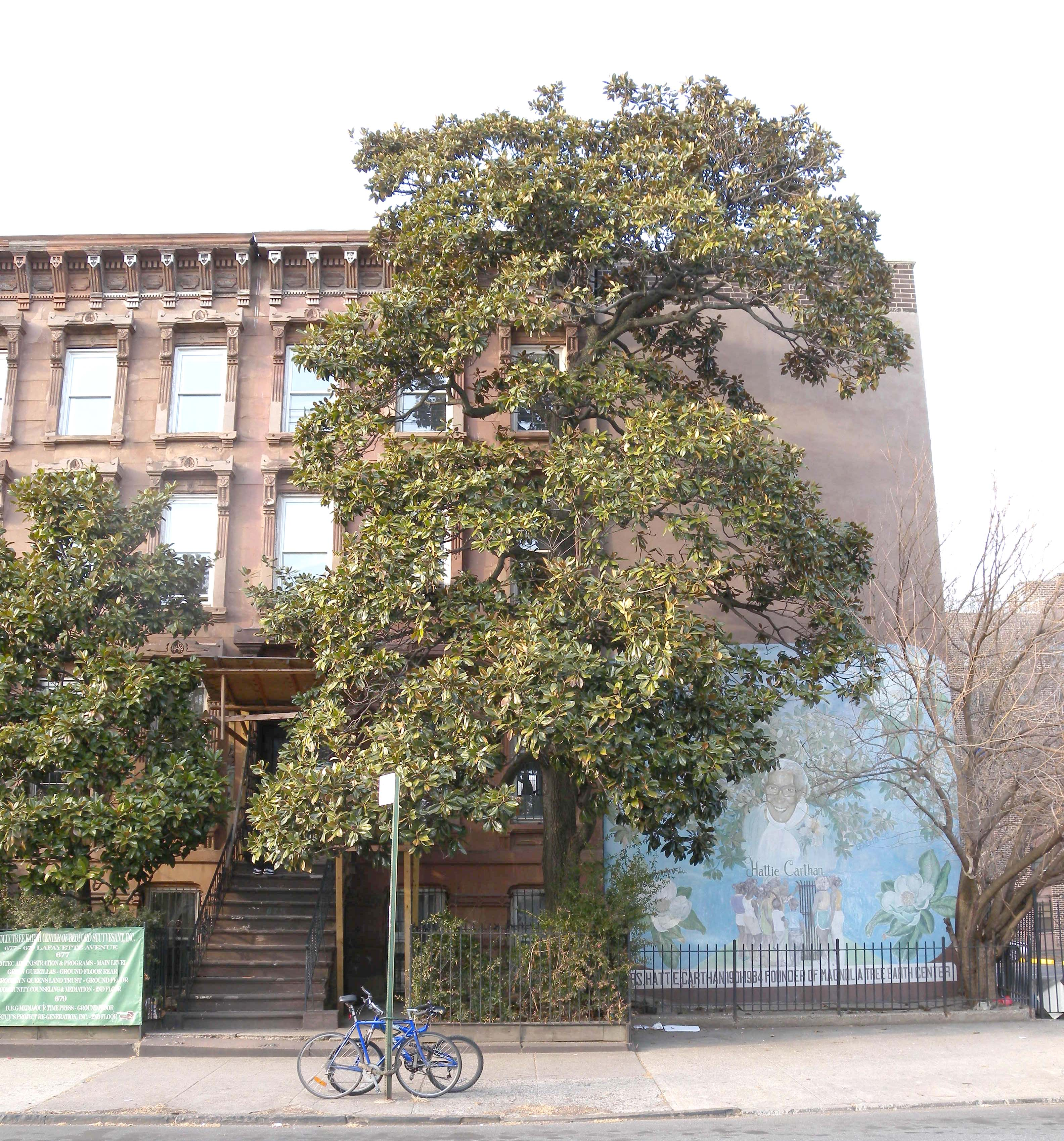 Looking north across Lafayette Avenue at Magnolia Tree Earth Center on a sunny afternoon. NYCLPC designation 1977.